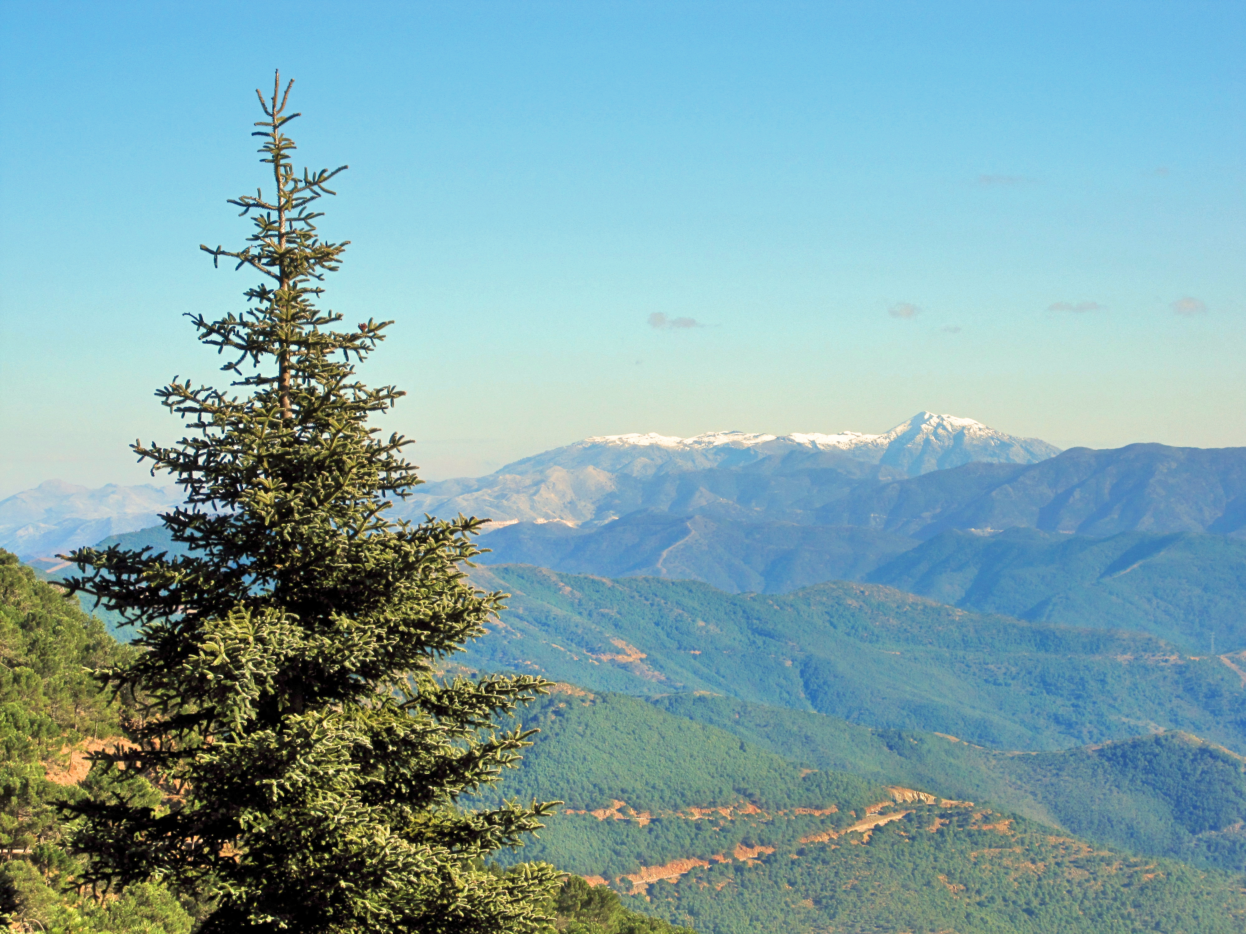 Pinsapo tree in Sierra Bermeja, Estepona